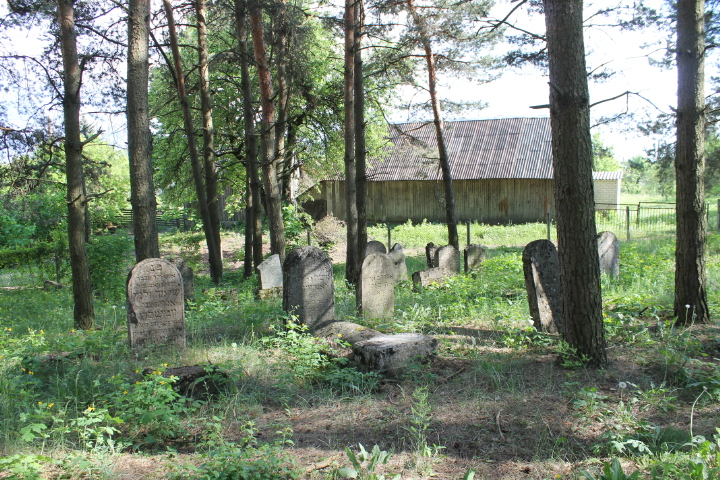 Veisiejai Jewish Cemetery, Lithuania